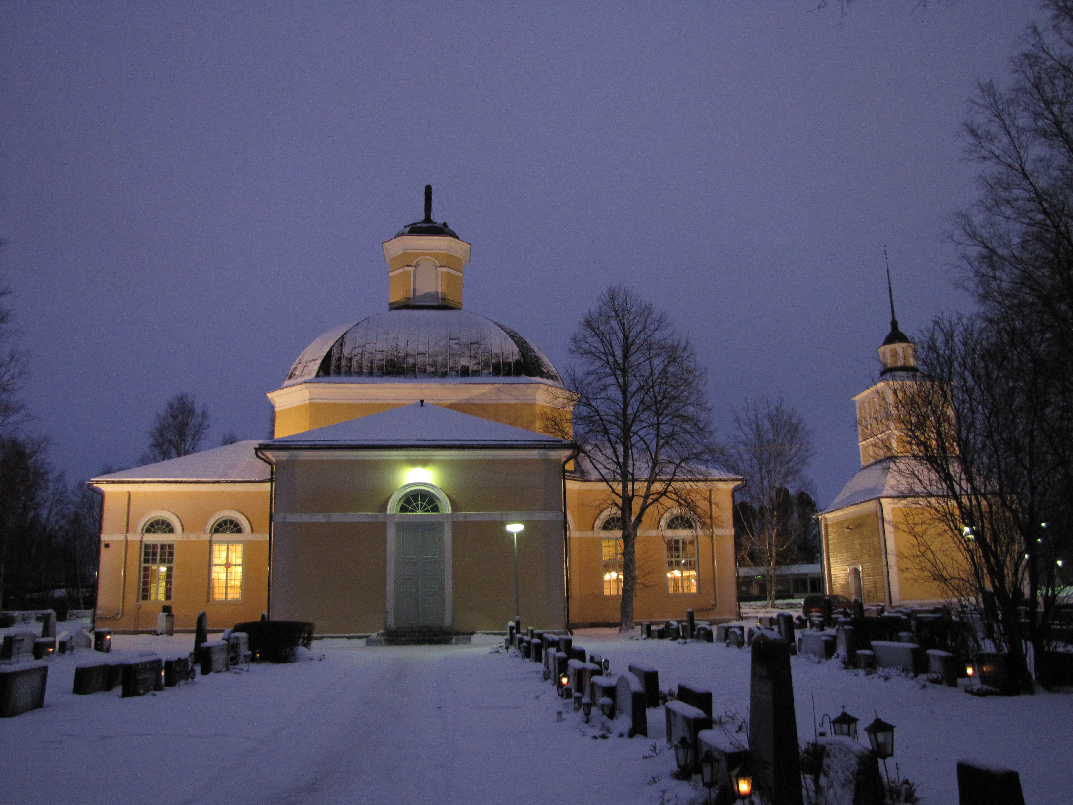 Kurikka church and bell tower in Kurikka, Finland.